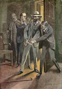 Sherlock Holmes in "The Adventure of the Dancing Men."